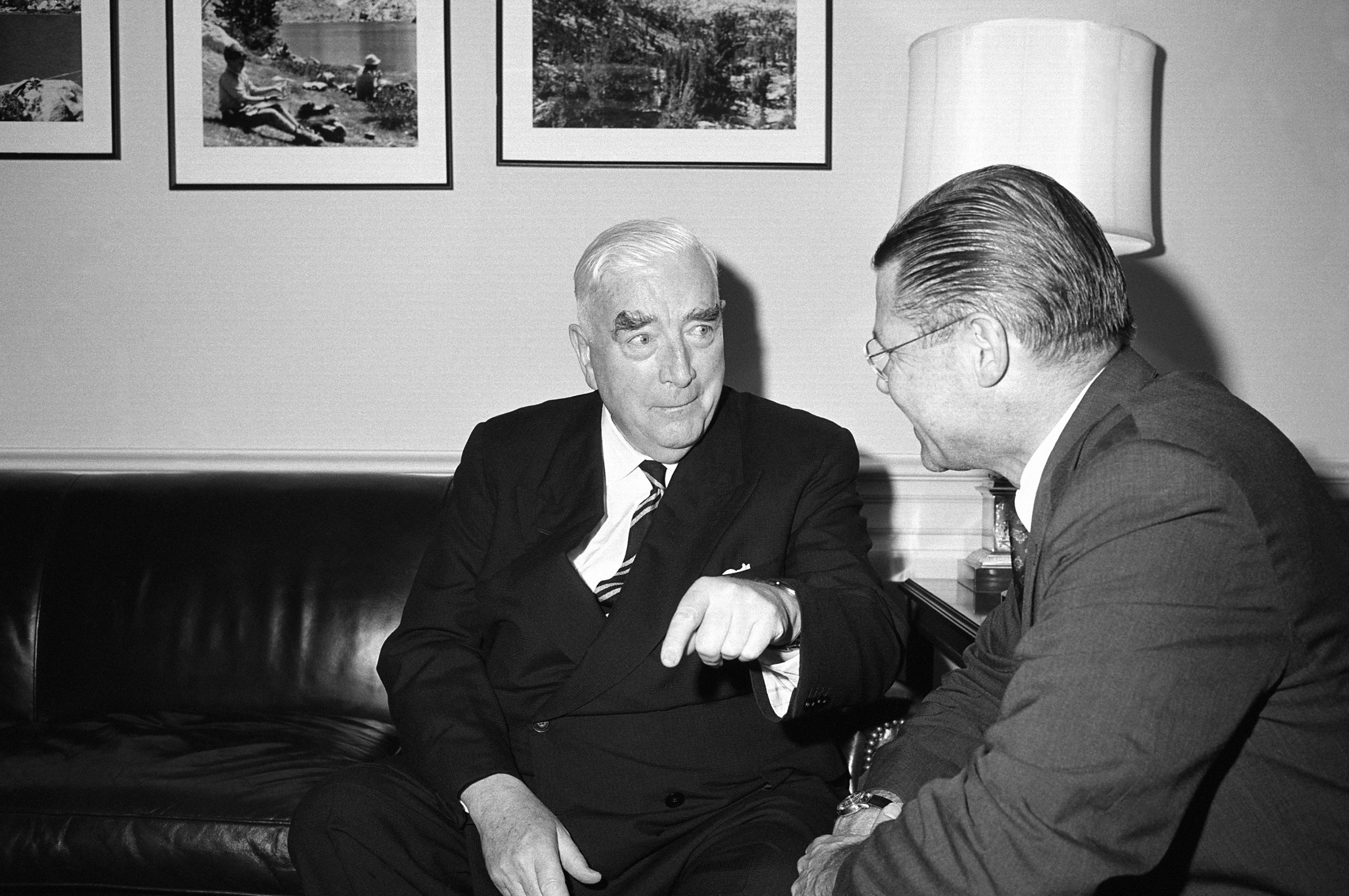 Robert Menzies (left) meets with US Secretary of Defense Robert McNamara (right) at the Pentagon